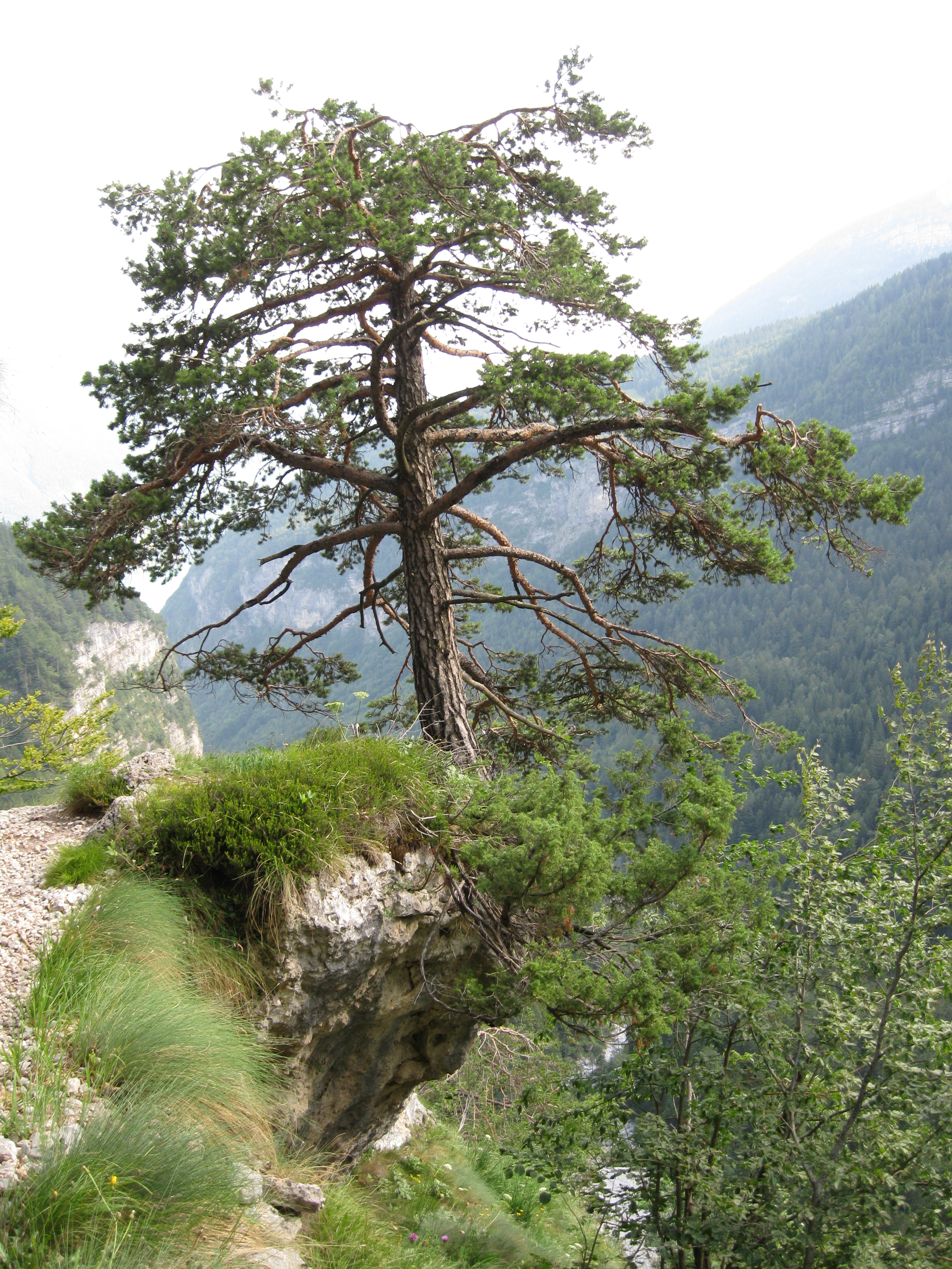 Pinus sylvestris, Molveno, Trento, Italy: 46°9'22.88"N 10°56'57"E, 1200m altitude.